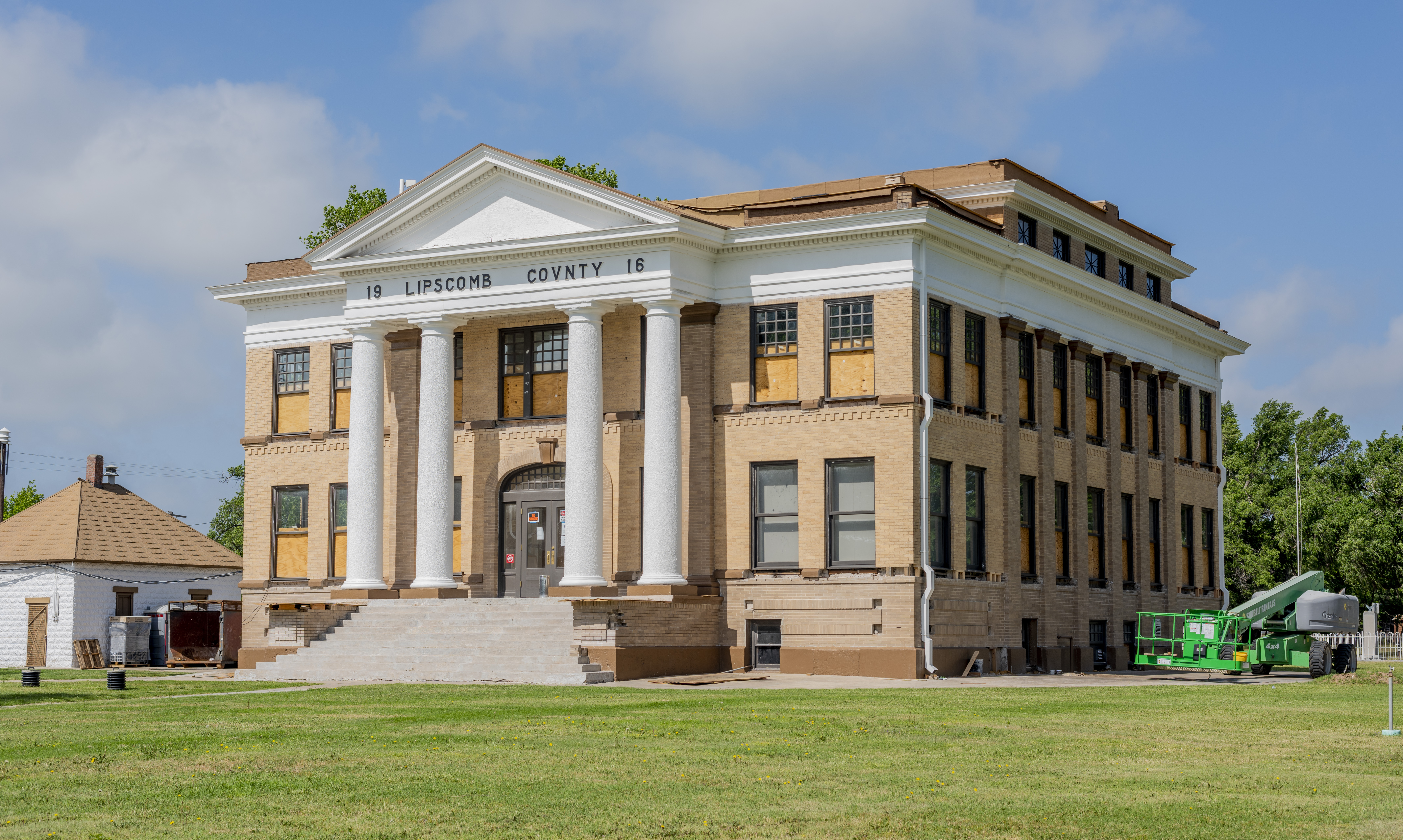 Image of the Lipscomb County, Texas courthouse located in Lipscomb, Texas. Taken in May 2020.